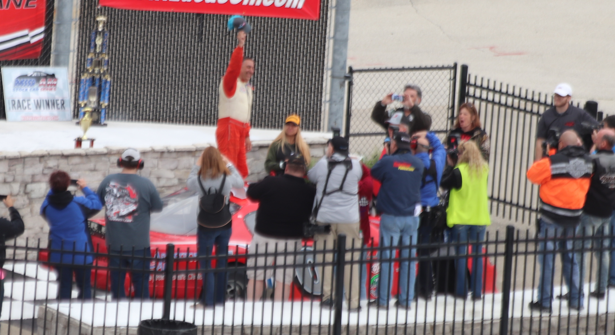 Ron Weyer after winning the Mid American Stock Car Series race at the Milwaukee Mile. The day's activities were the first races on the oval track in about 5 years.